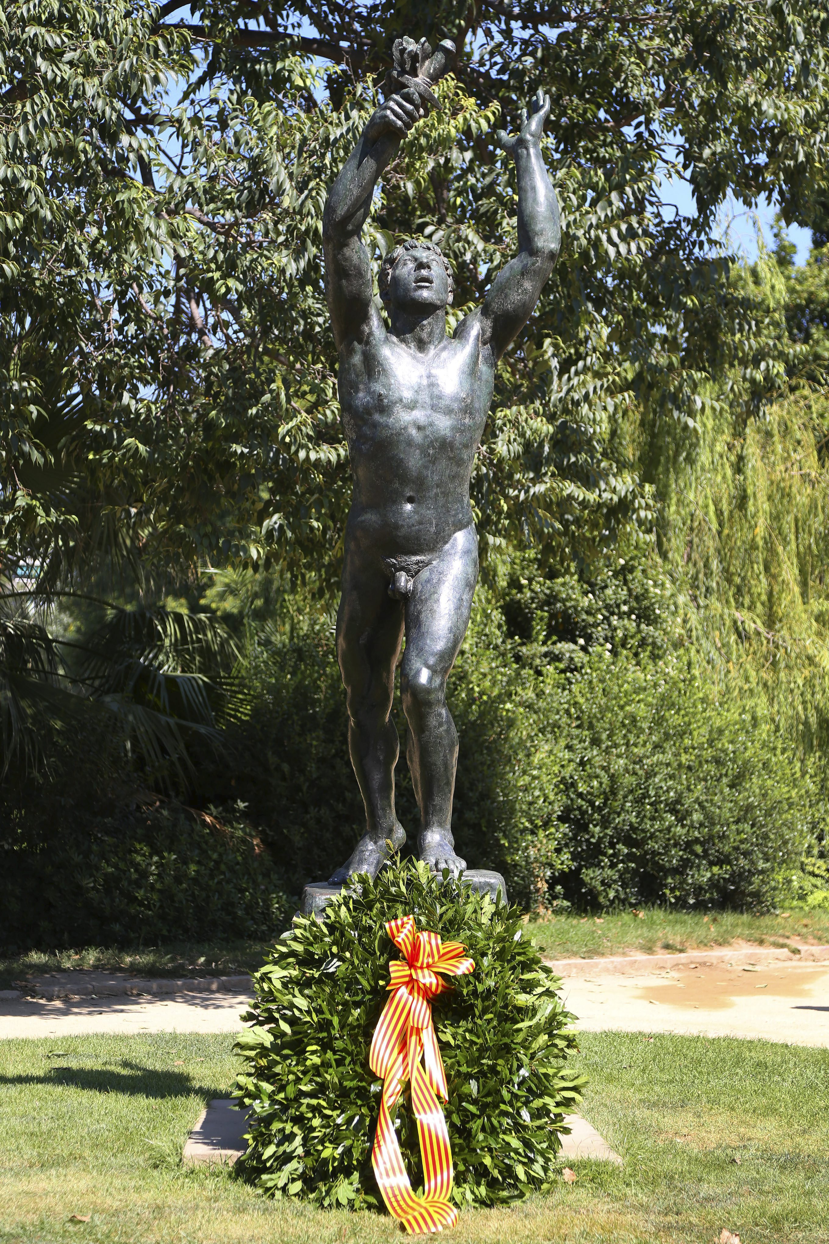 Bronze sculpture by Josep Clàra; Als Voluntaris Catalans